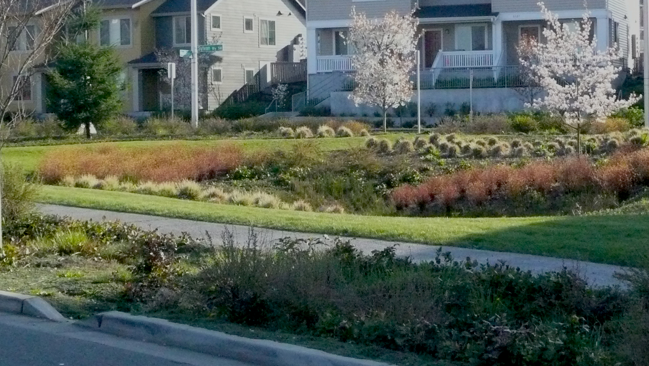 Large bioswayle (raingarden) integrates stormwater runoff treatment with planting feature for neighborhood.